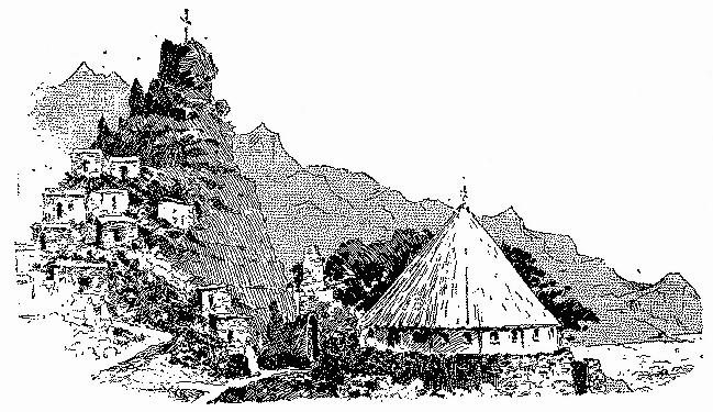 Etching of Debre Bizen, Eritrea. This etching originally published in J.T. Bent, The Sacred City of the Ethiopians (London, 1896)